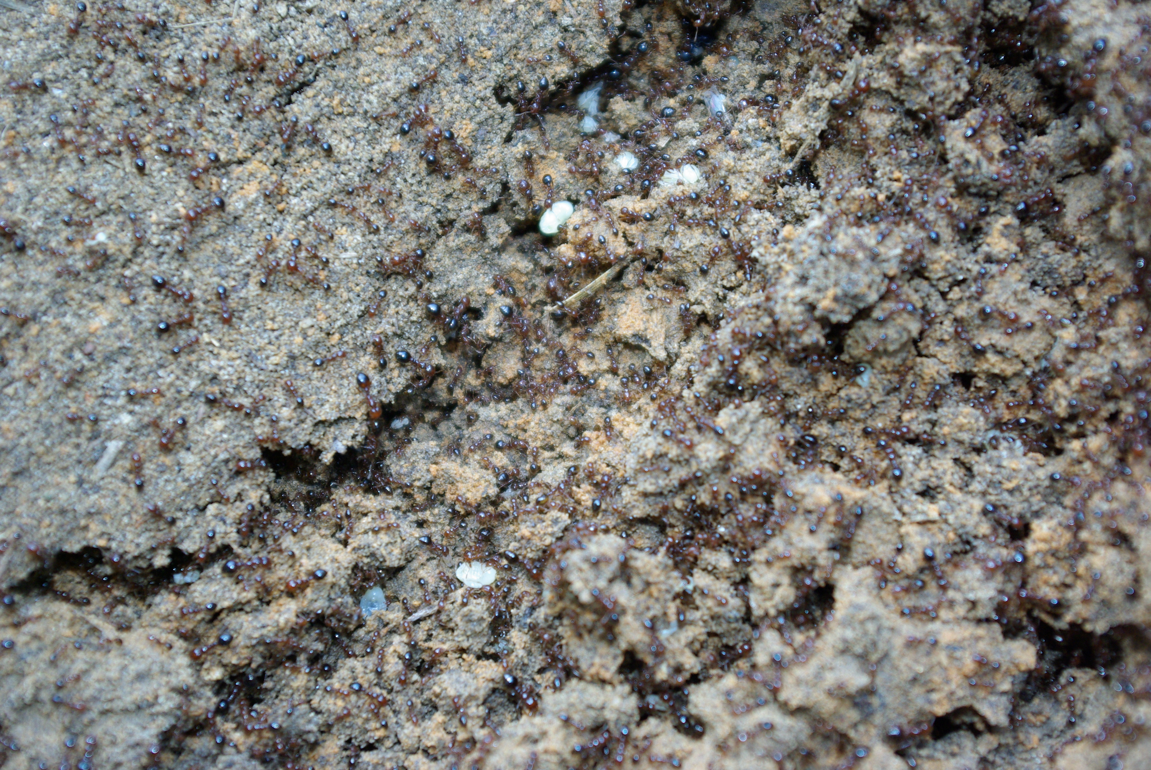 Accidentally stepped in a mound of fire ants; Cypress Gardens, SC